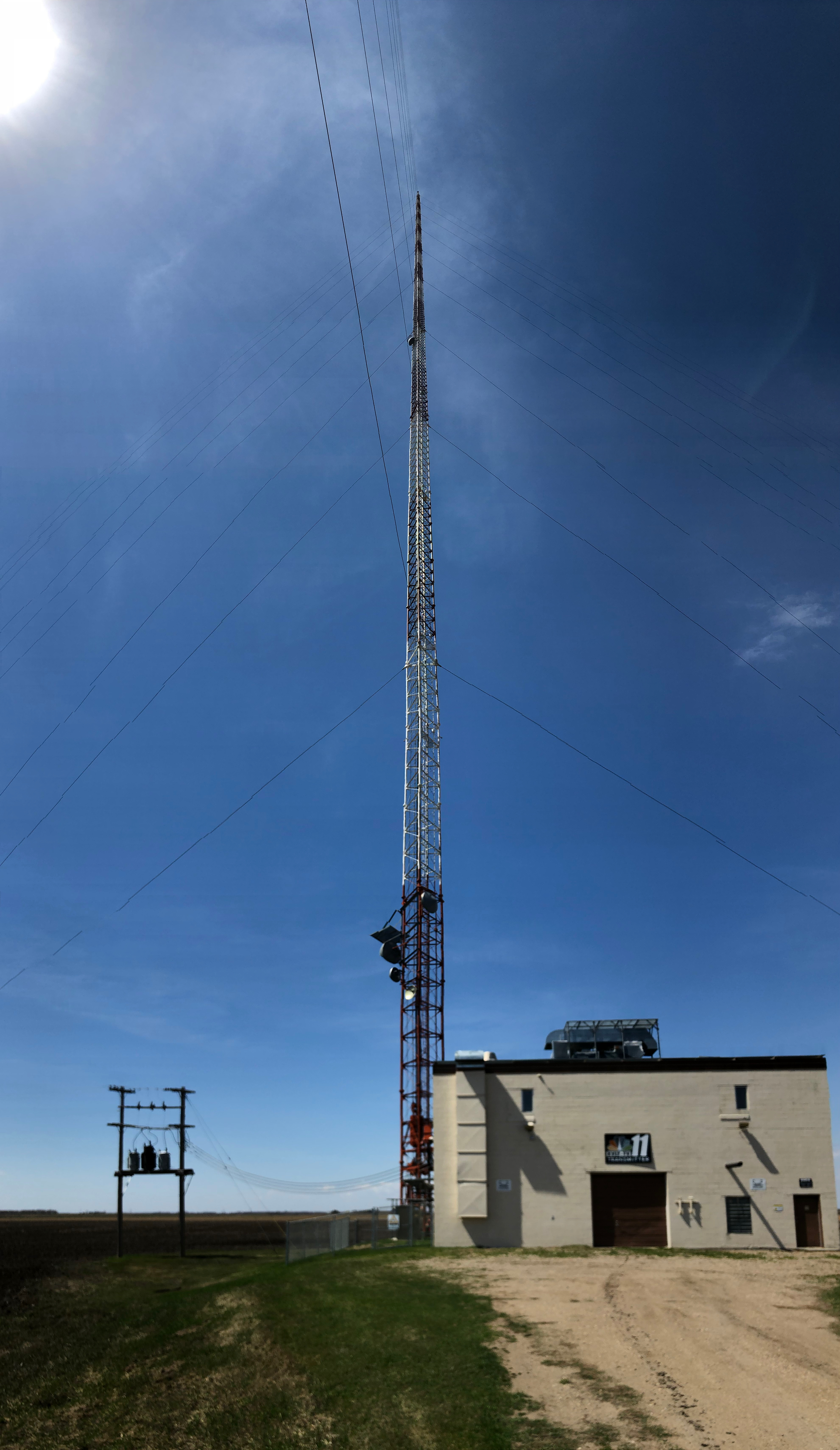 Full view of the KVLY-TV mast